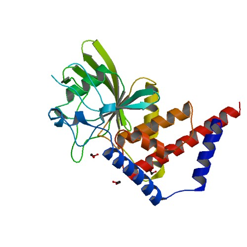 PDB rendering based on 2p6x: PTPN22.